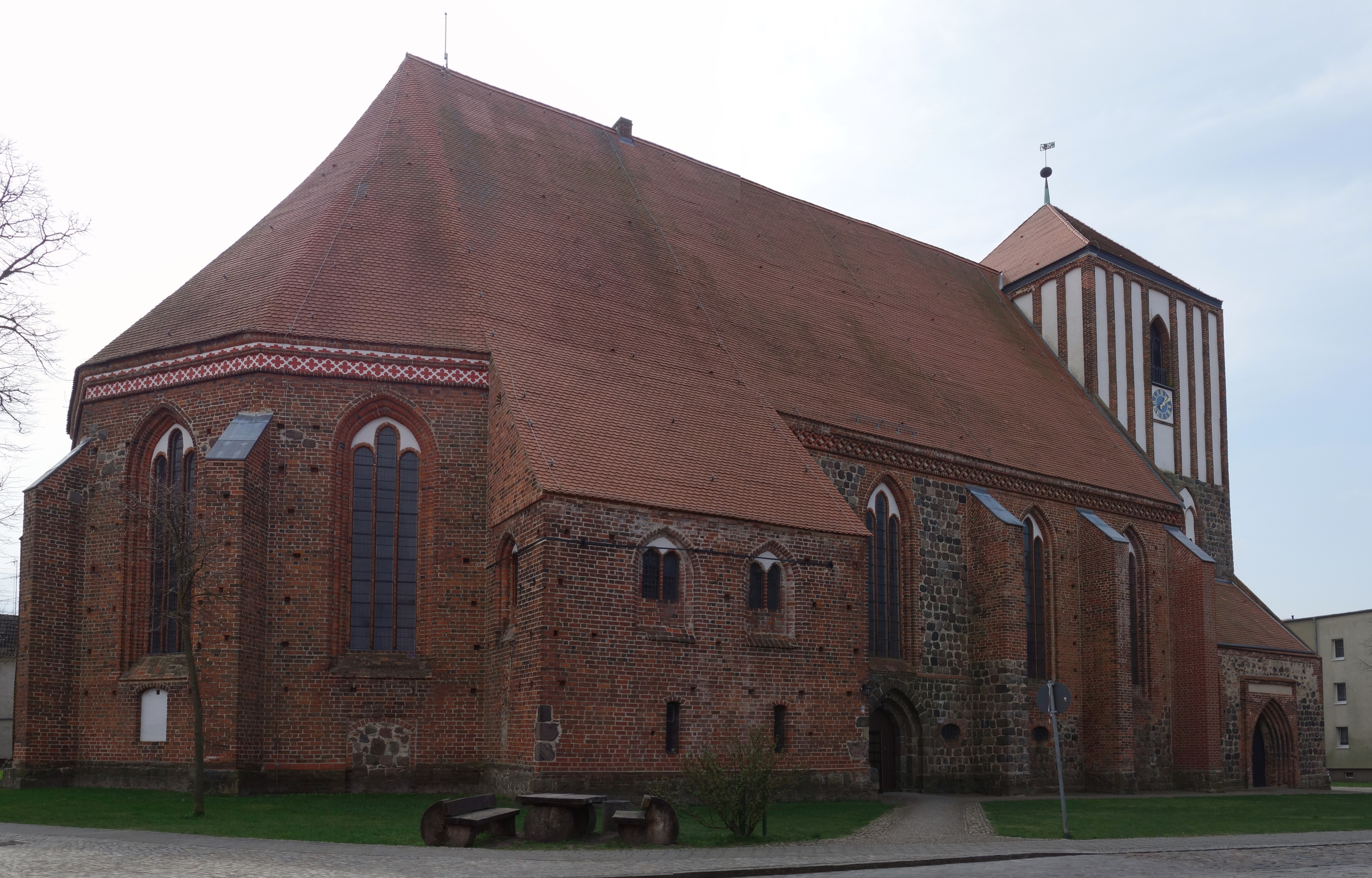 North-eastern view of church St. Peter and Paul, Wusterhausen municipality, Ostprignitz-Ruppin district, Brandenburg state, Germany